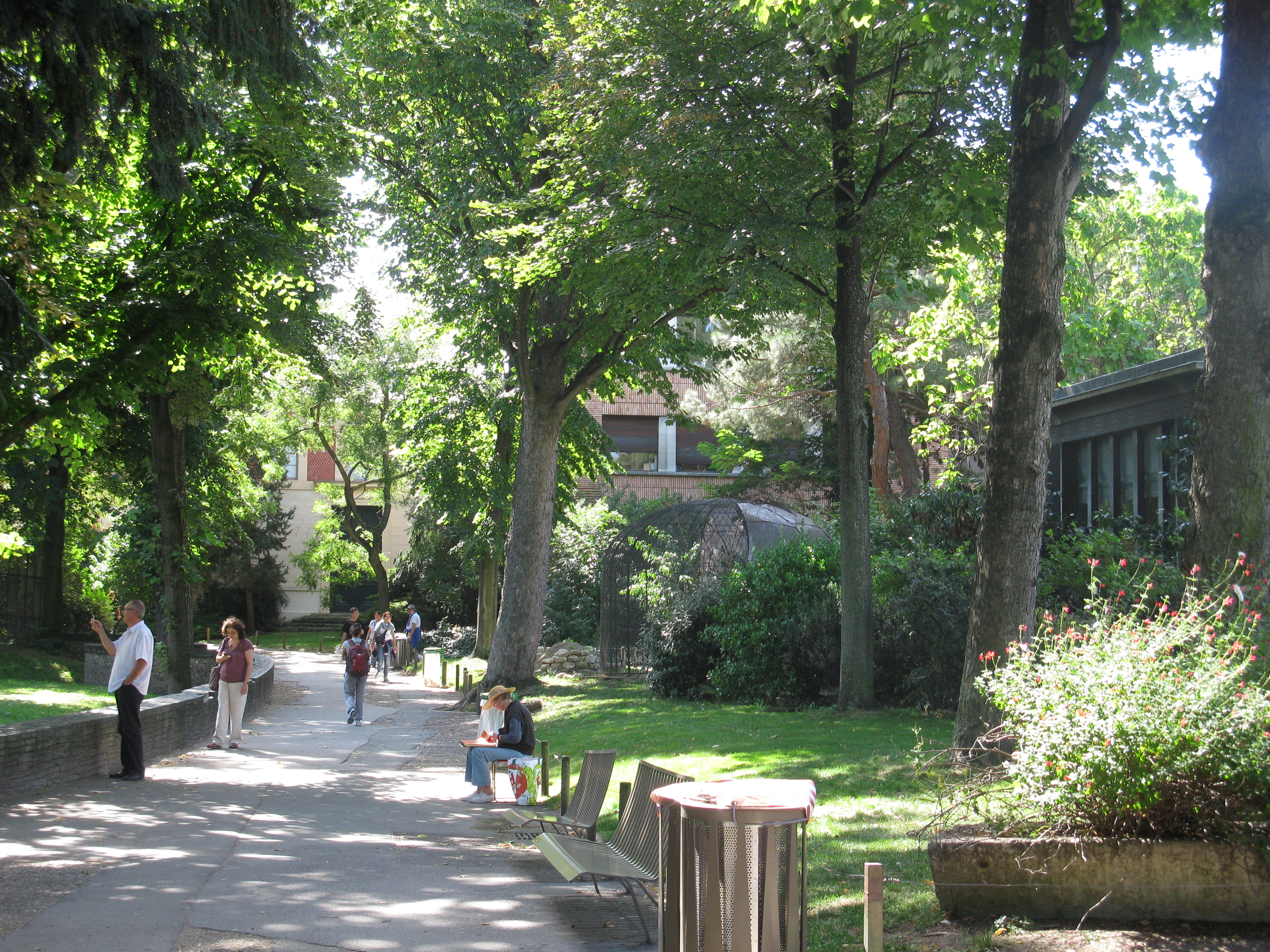 The Vivarium of the Muséum National d'Histoire Naturelle, Paris.